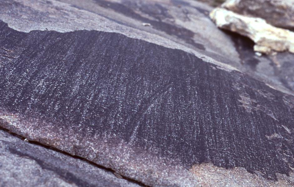 Glacial patina and striations in the Upper Right Fork Canyon, looking north towards the canyon outlet.